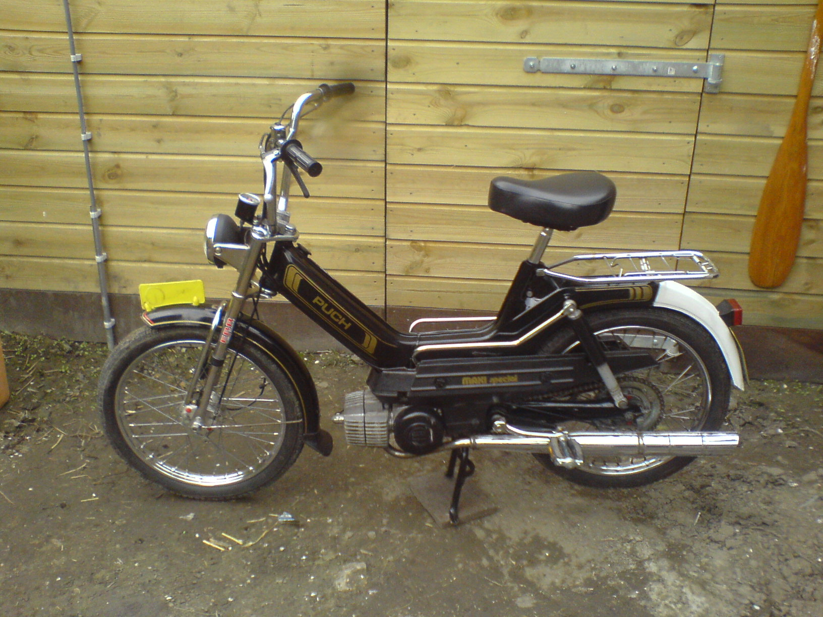 Puch Maxi Special (MAXI-S) from 1986. It's almost original, only a few parts are replaces, like the front, some chrome parts and the wheels